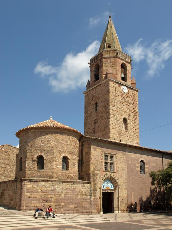 Fréjus (France), Cathedral, photo 2010